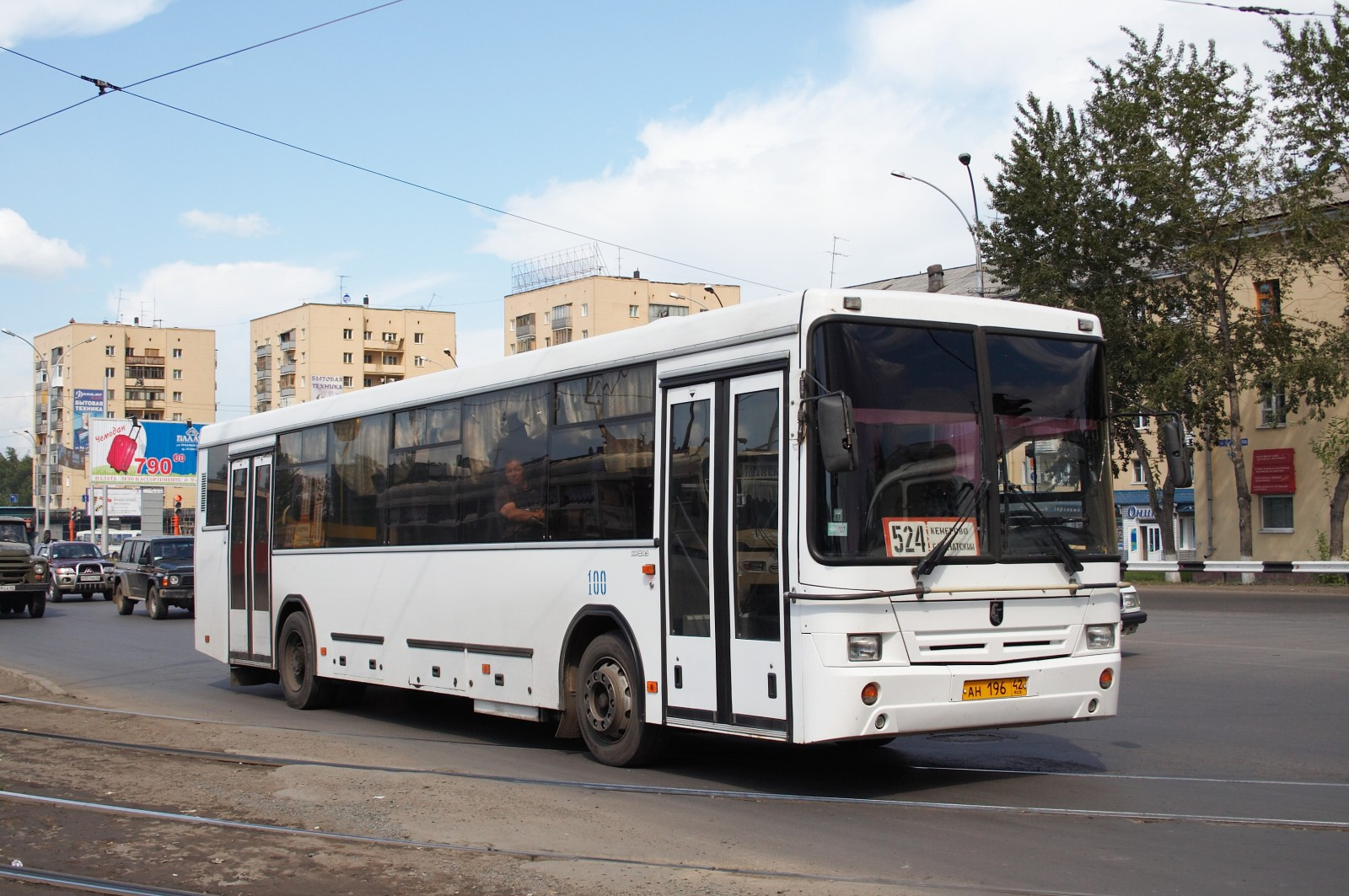 NefAZ 5299 suburban bus (reg. AH 196 42, #100) in Kemerovo, Russia.